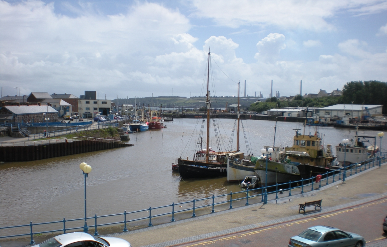 Milford Haven Docks and Marina